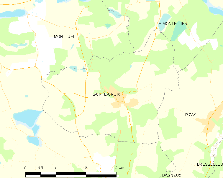 Map of French commune: Sainte-Croix Map commune FR insee code 01342.png